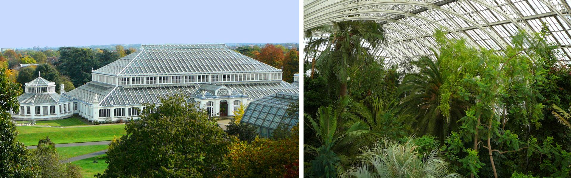 Temperate House- Outside/Inside